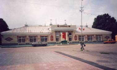 Station building of Dobrinka railway station (Lipetsk Oblast).